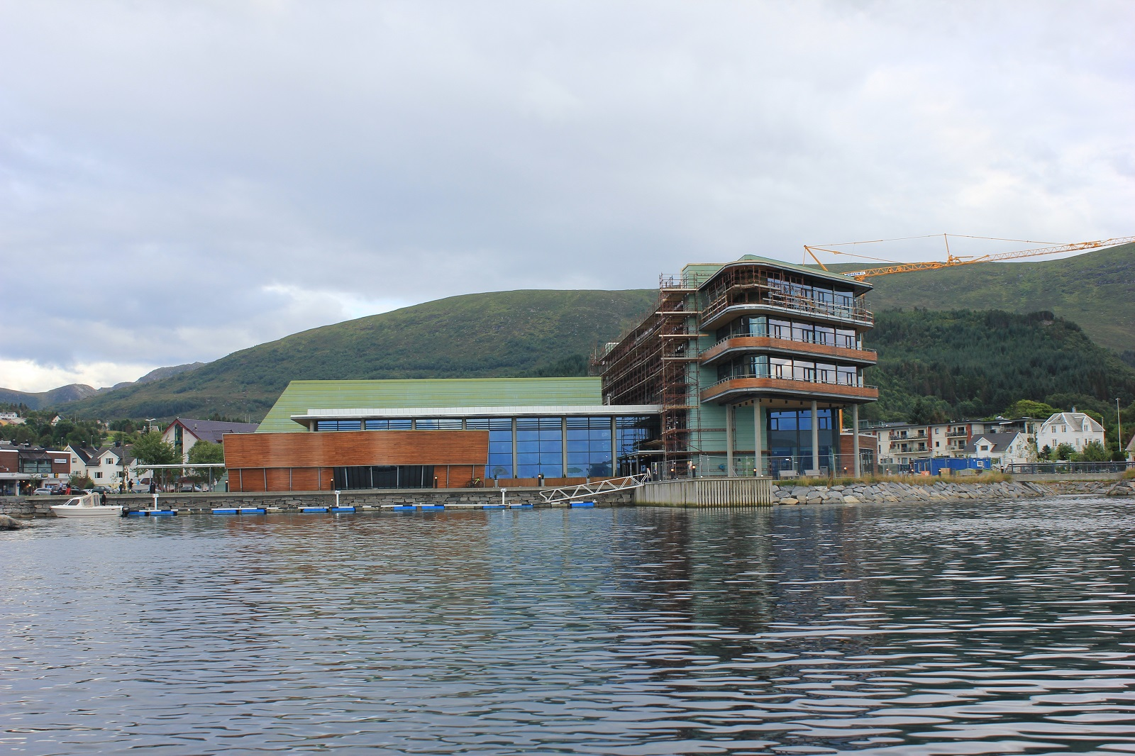 Ulsteinvik, seaside view in 2012